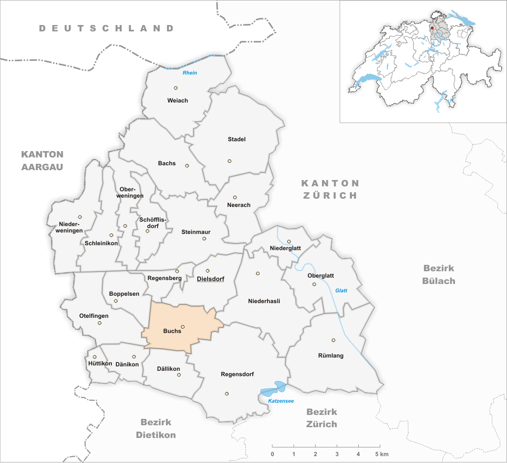 Municipality Buchs